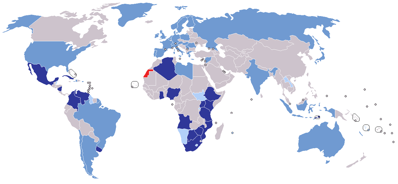 Map of diplomatic missions of the Sahrawi Arab Democratic Republic (SADR) SADR SADR embassy SADR embassy, non-resident SADR representative office